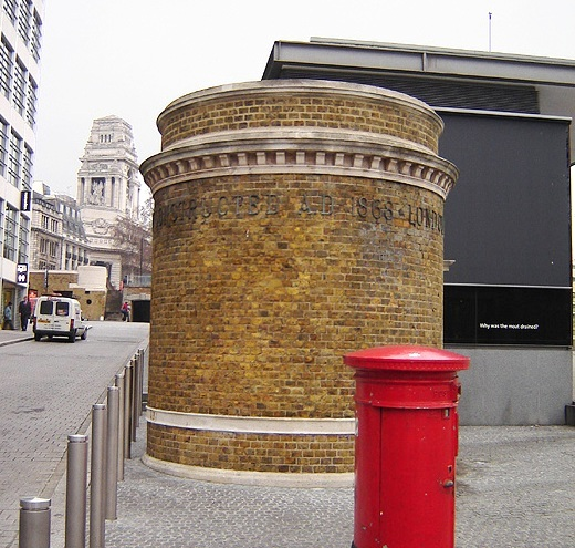 Tower Subway, northern entrance kiosk.